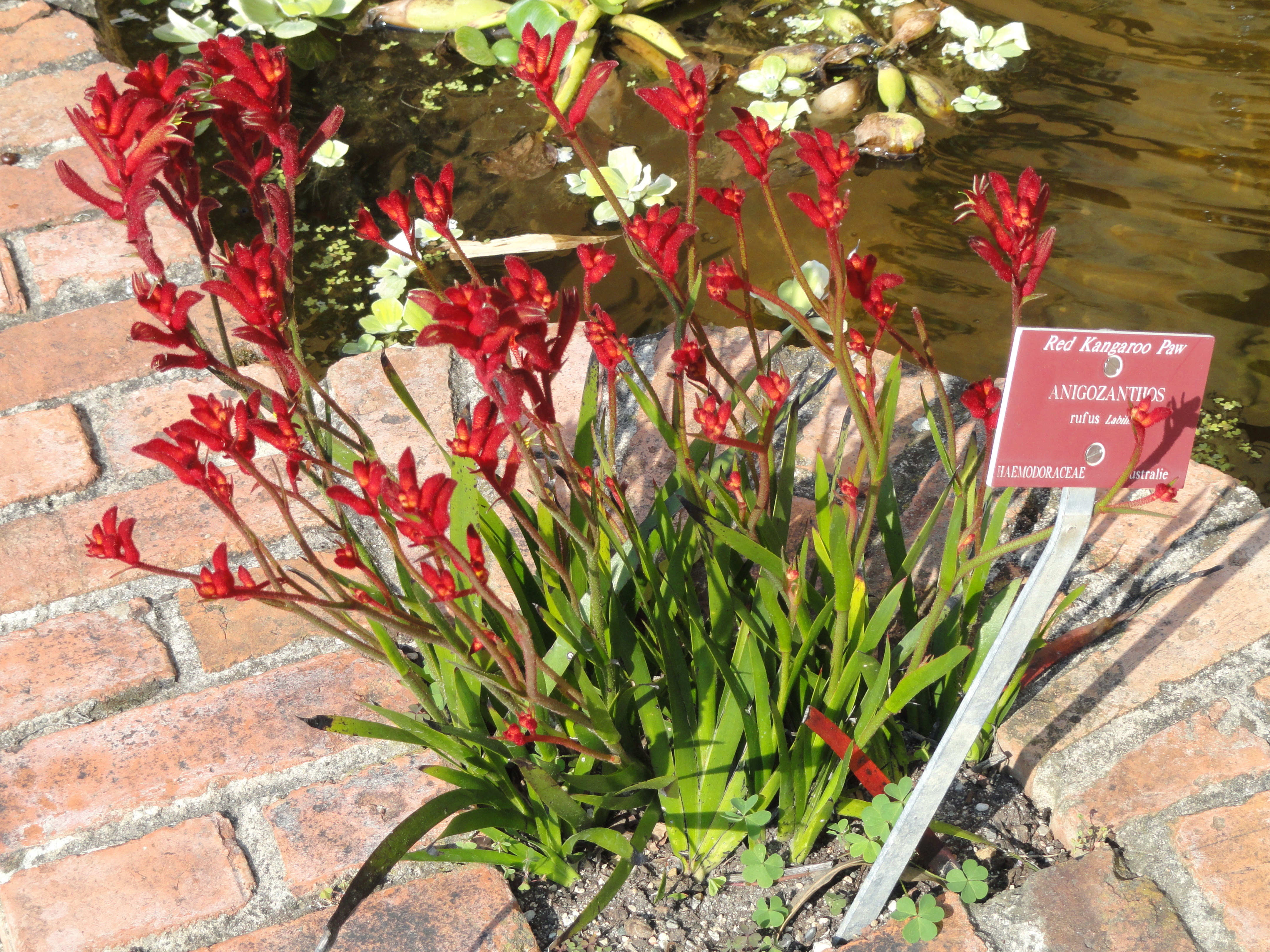 Anigozanthos rufus specimen in the Jardin botanique du Val Rahmeh, Menton, Alpes-Maritimes, France.